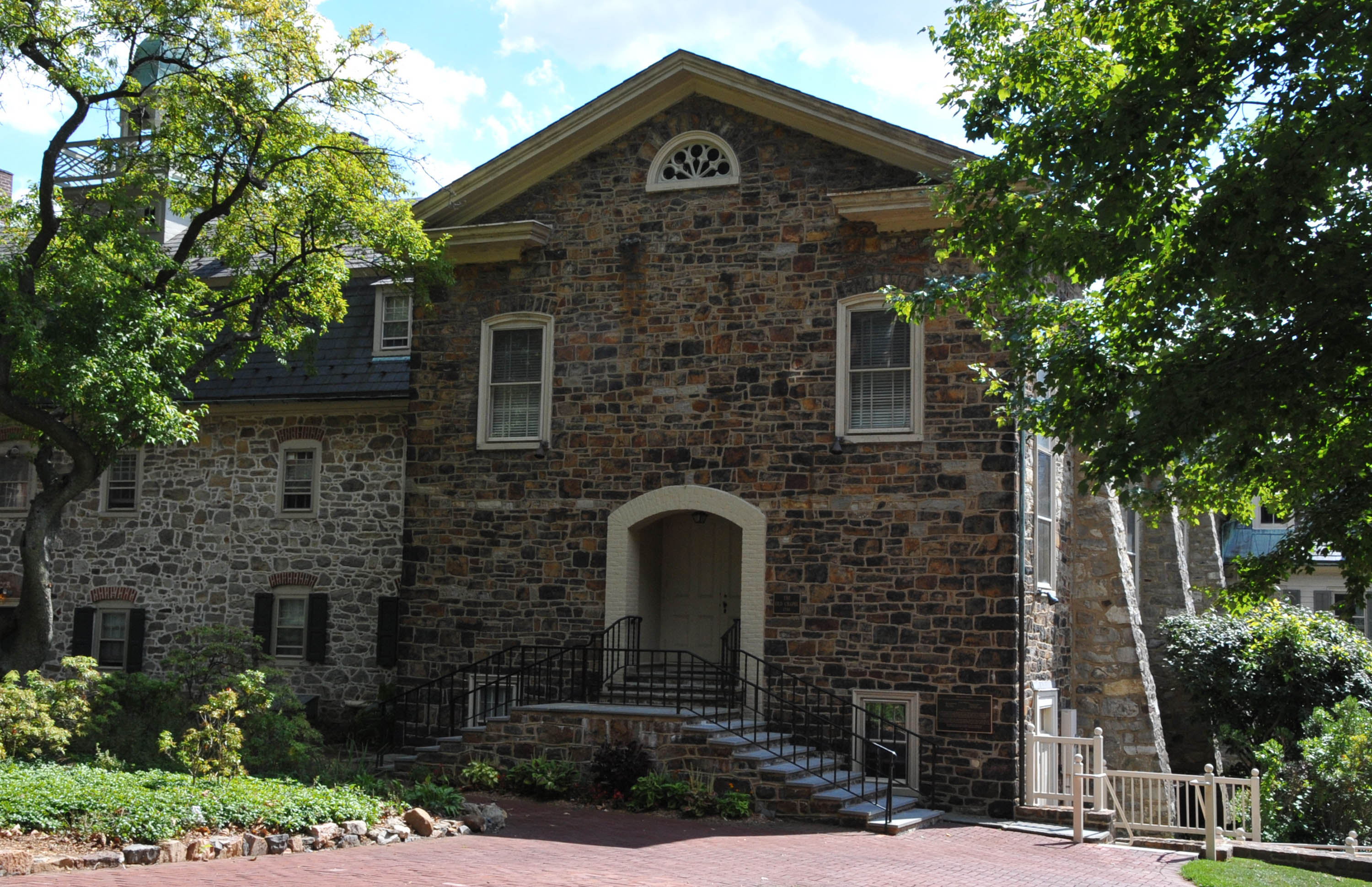 1751 TO 1806; NOTED REVOLUTIONARY WAR FIGURES HEARD THE GOSPEL AND MORAVIAN MUSIC HERE